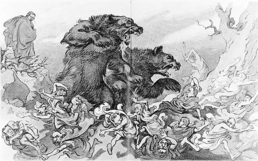 Cartoon, "Elisha Roosevelt sicketh the bears upon the bad boys of Wall Street." President Theodore Roosevelt is depicted commanding two large bears labeled "Interstate Commerce Commission" and "Federal Courts" upon Wall Street. The caption is based on a passage from II Kings 2:23-24.